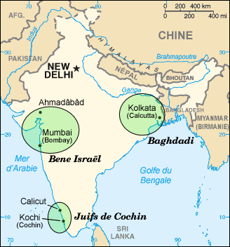 Map in French of Jewish communities in India before their emigration to Israel